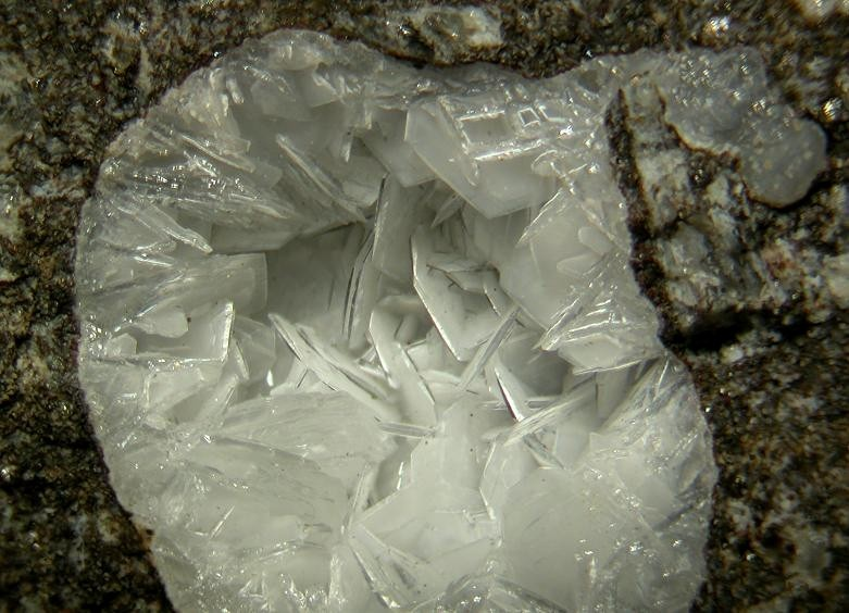 Lévyne Locality: Teviot Brook, Boonah Shire, Queensland, Australia Field of view 8 mm. Levyne xls, almost free of erionite coating. Collected by Vic Cloete at Black Cattle Creek, a few km west of Teviot Brook. Specimen and photo Leon Hupperichs.